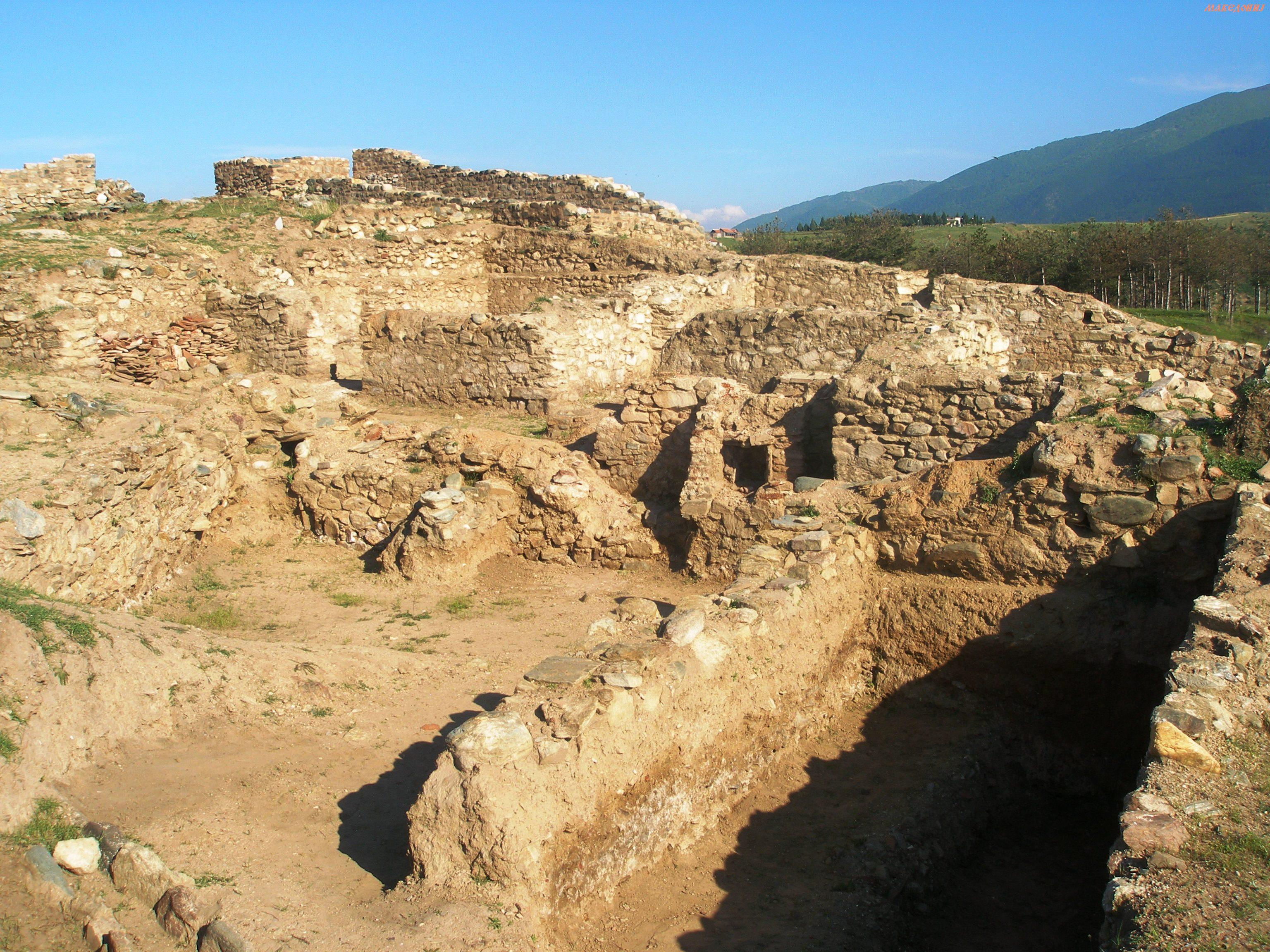 Vinica Fortress, Macedonia